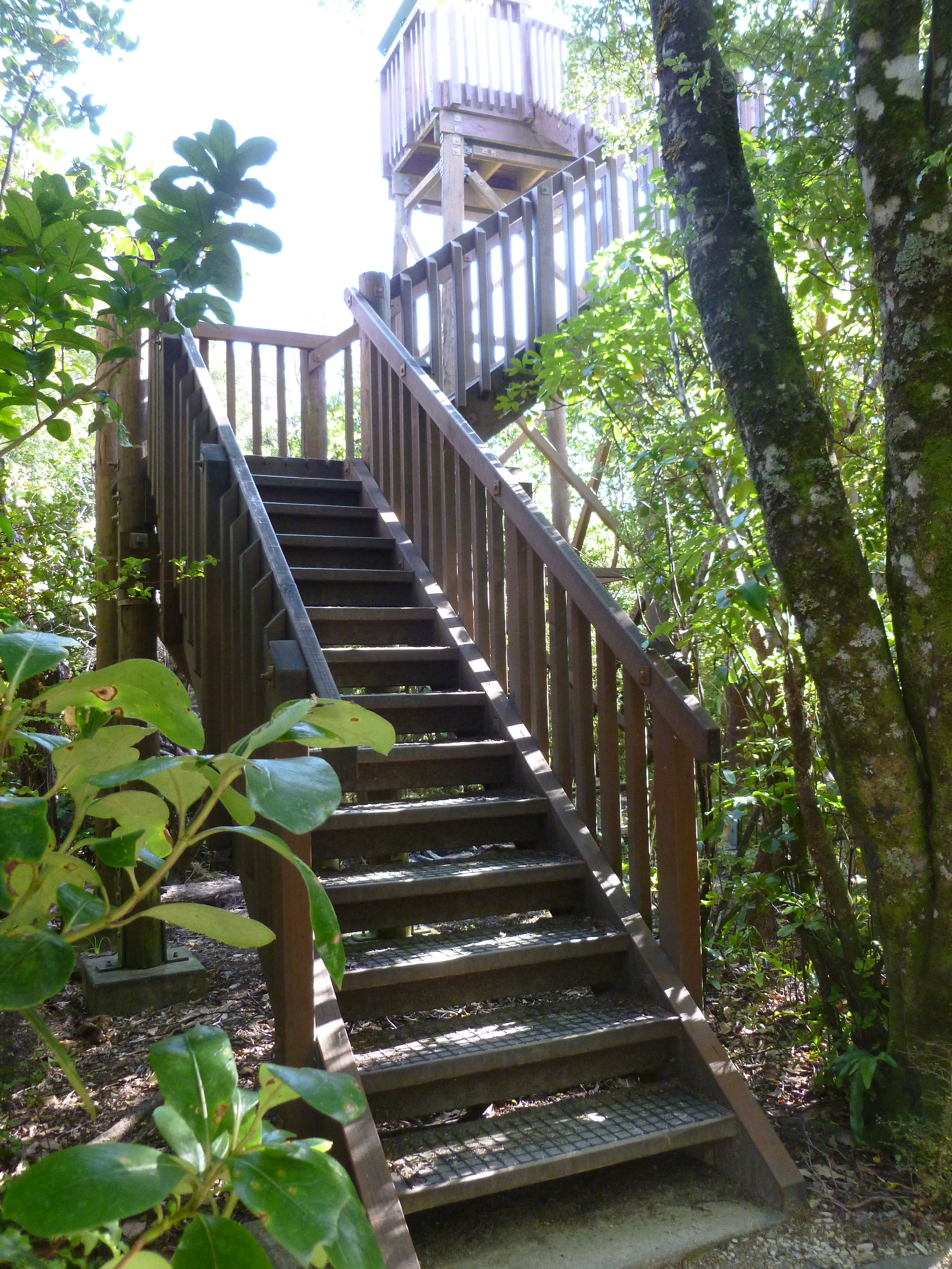 The Motuara Lookout Track leads from the jetty to the viewing tower on the summit (128 m). The wooden tower was built by working parties from various local clubs to grant panoramic views over the Queen Charlotte Sound and out to Cook Strait